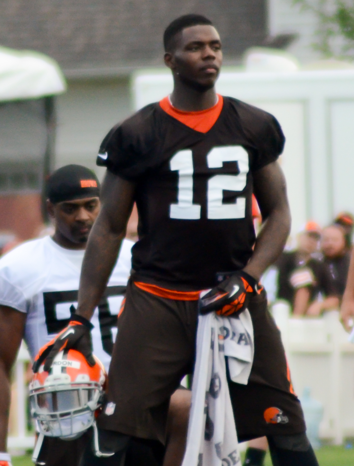 Wide receiver Josh Gordon during 2014 Cleveland Browns training camp